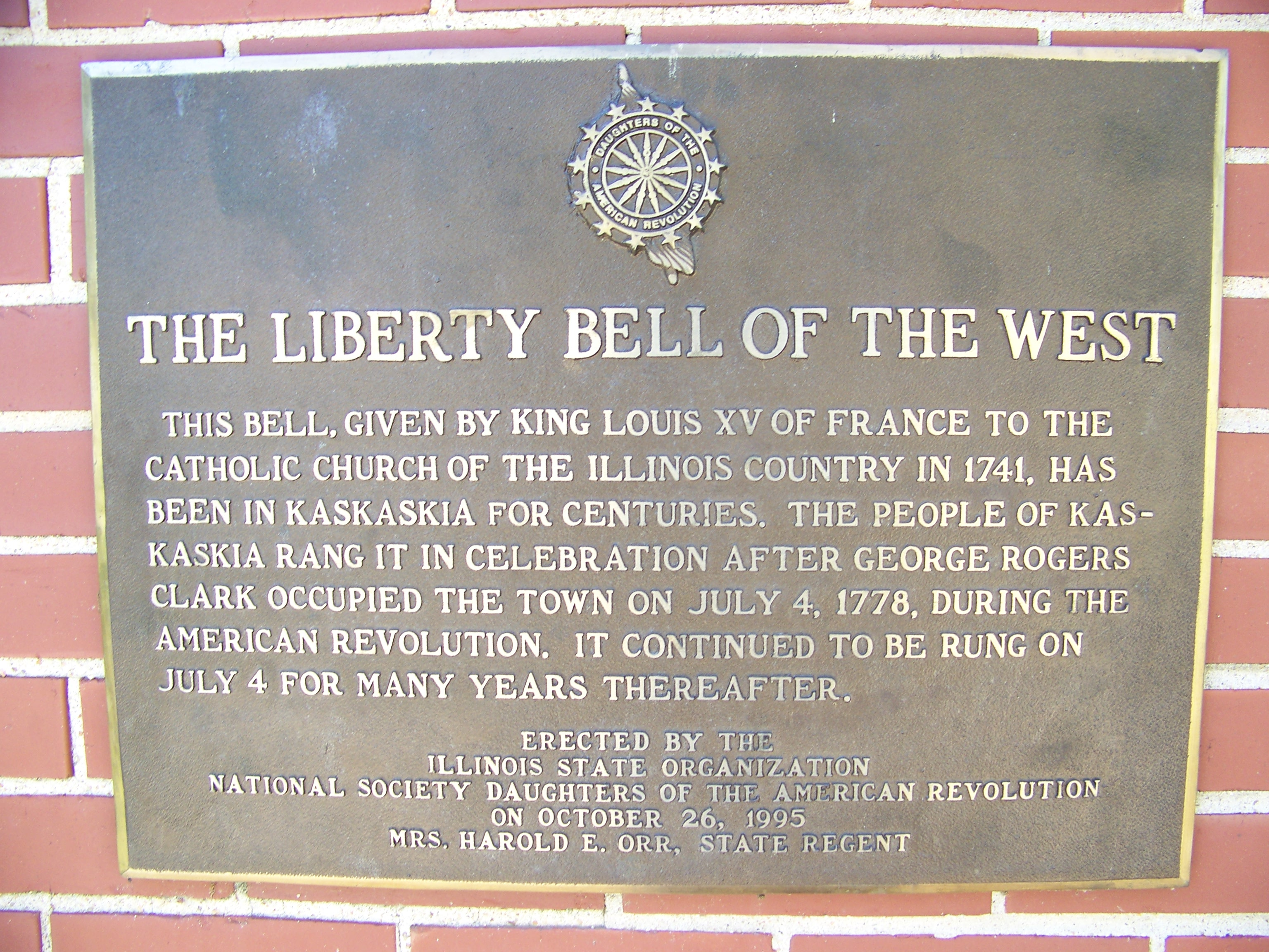 Kaskaskia, Illinois, historic plaque